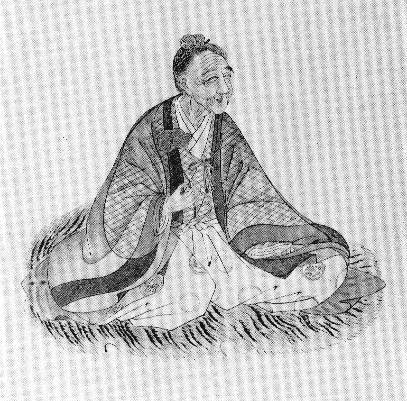 Portrait of Matsunaga Teitoku